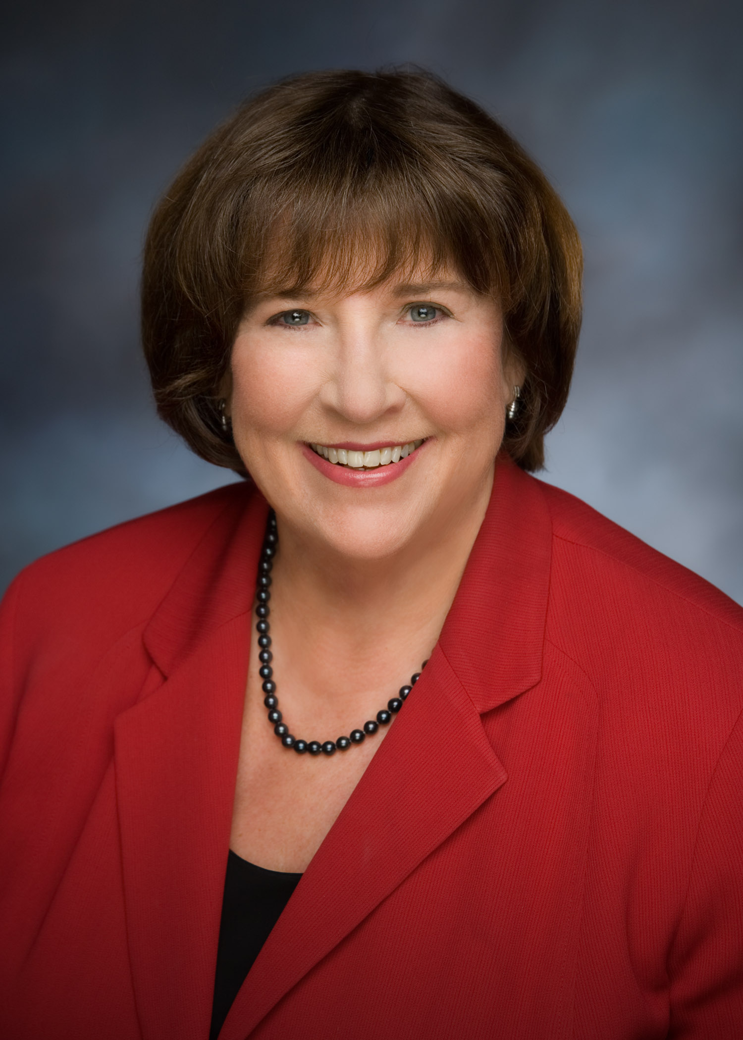 United States Congresswoman Darlene Hooley (D-Oregon)